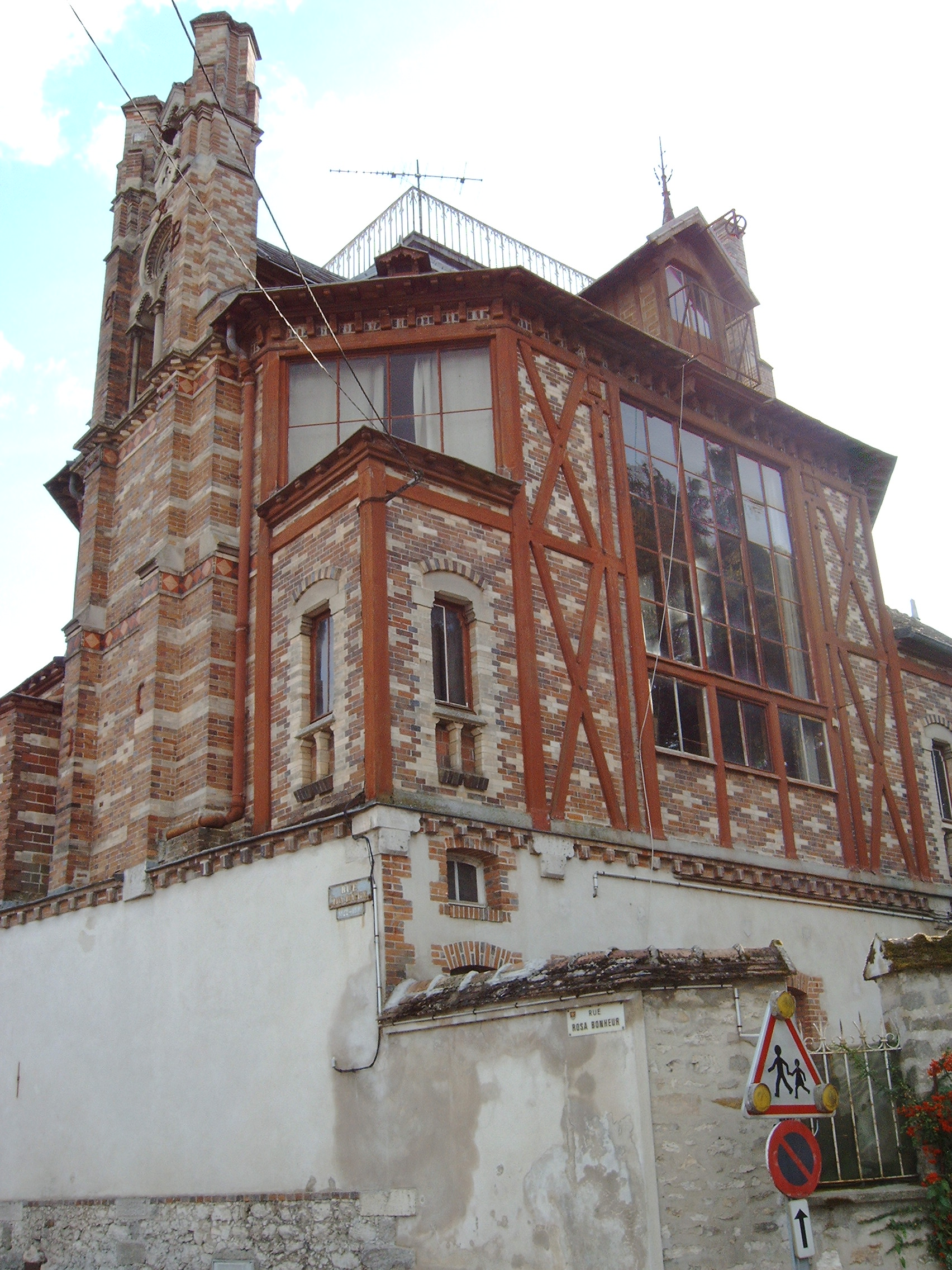 Rosa Bonheur's Atelier, Château de By, Thomery, Seine-et-Marne, France